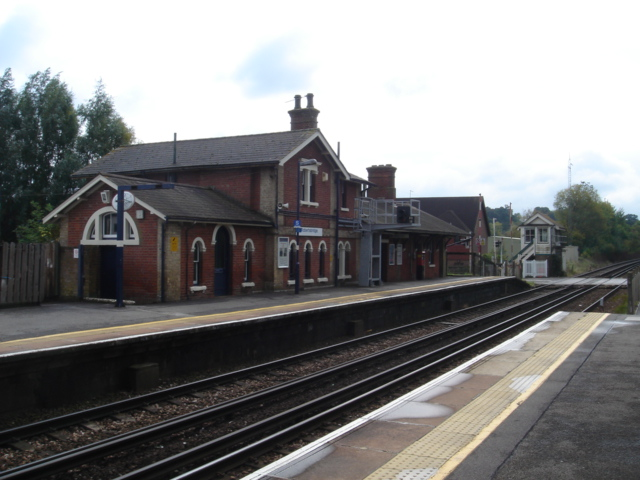 Station buildings, level crossing and signalbox at Robertsbridge railway station, looking south. Photographed on 29 September 2007.